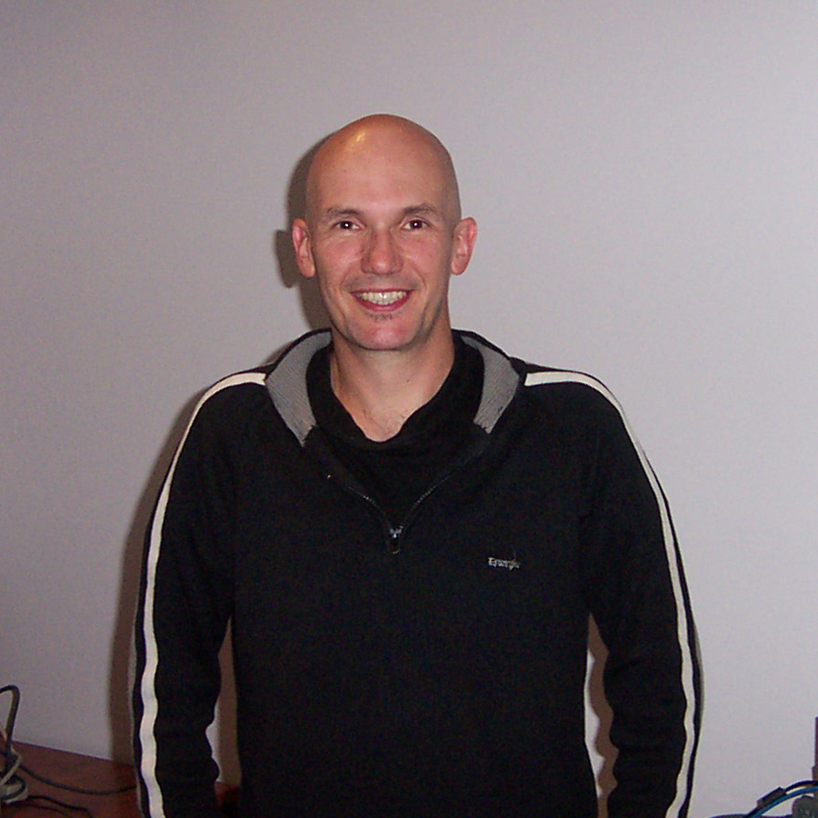 Steve Fawkner is a software designer, programmer and composer who has worked for several video game design companies. He is most famous as the creator of Warlords game series. In 2003 he founded his own game developer company Infinite Interactive.